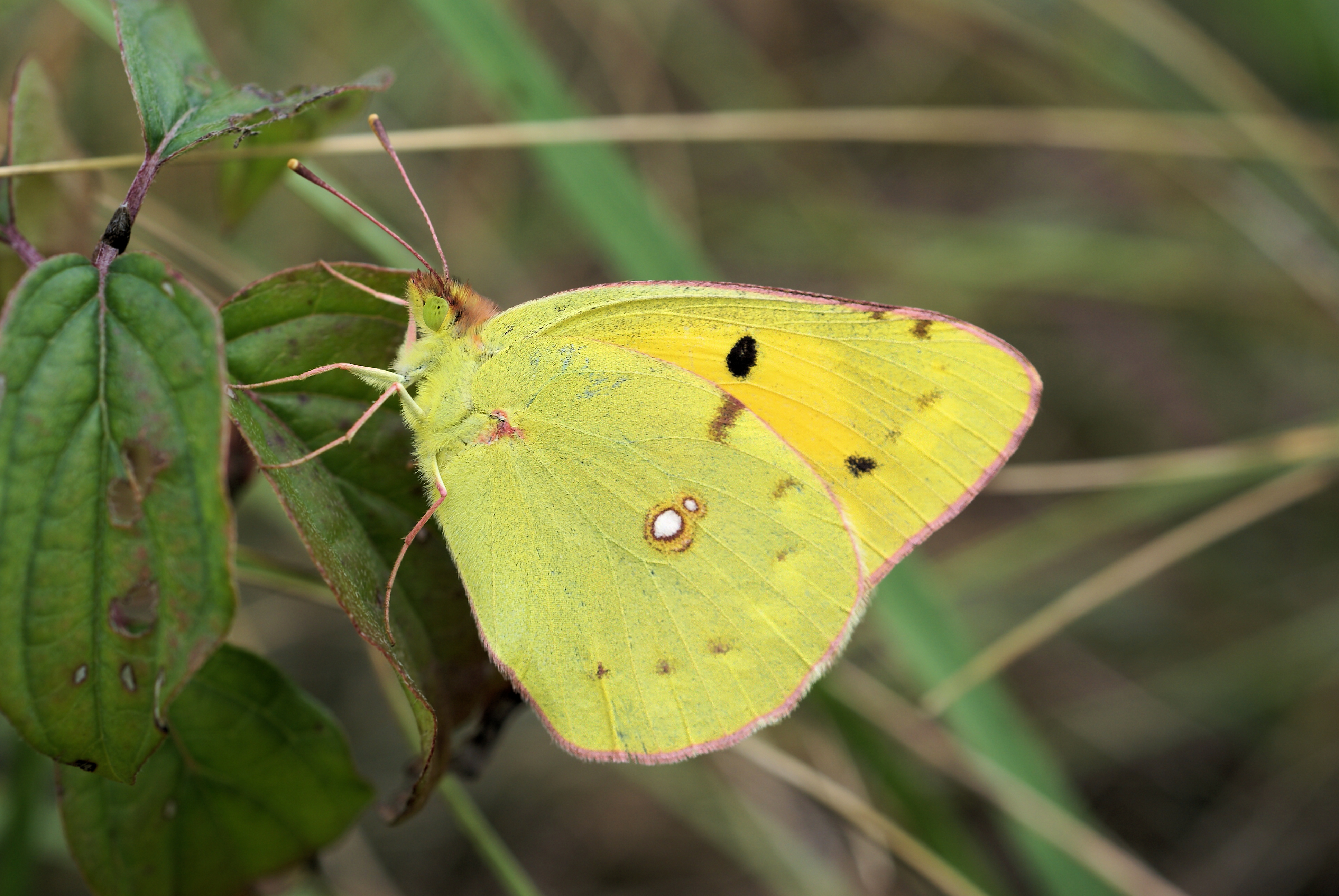 Dark Clouded Yellow, Dordogne, France